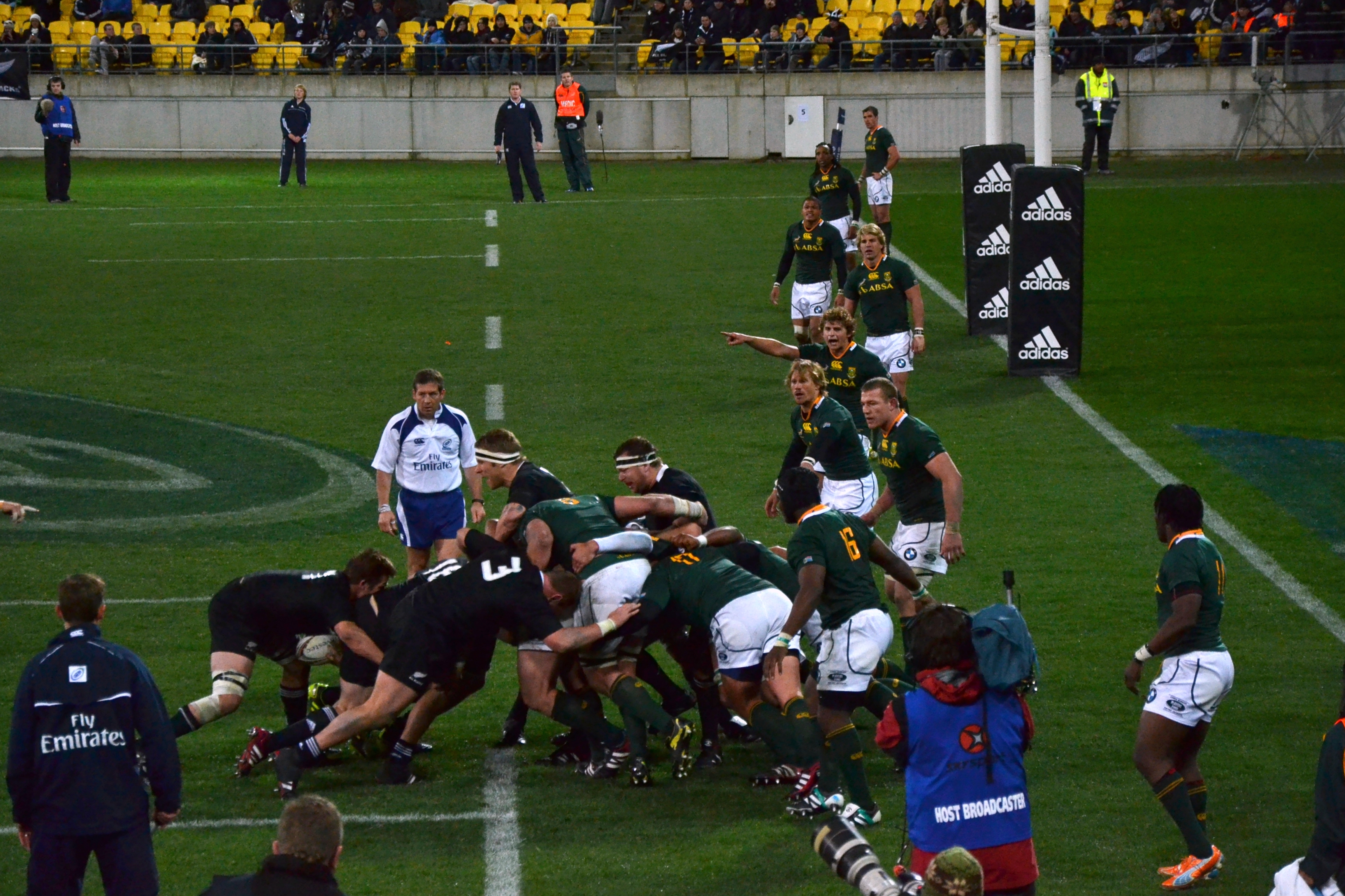 Richie McCaw carrying the ball behind a maul (All-blacks) 5 meters away from the Springboks goal-line during a tri-nations match at Westpac Stadium on July 30th, 2011.